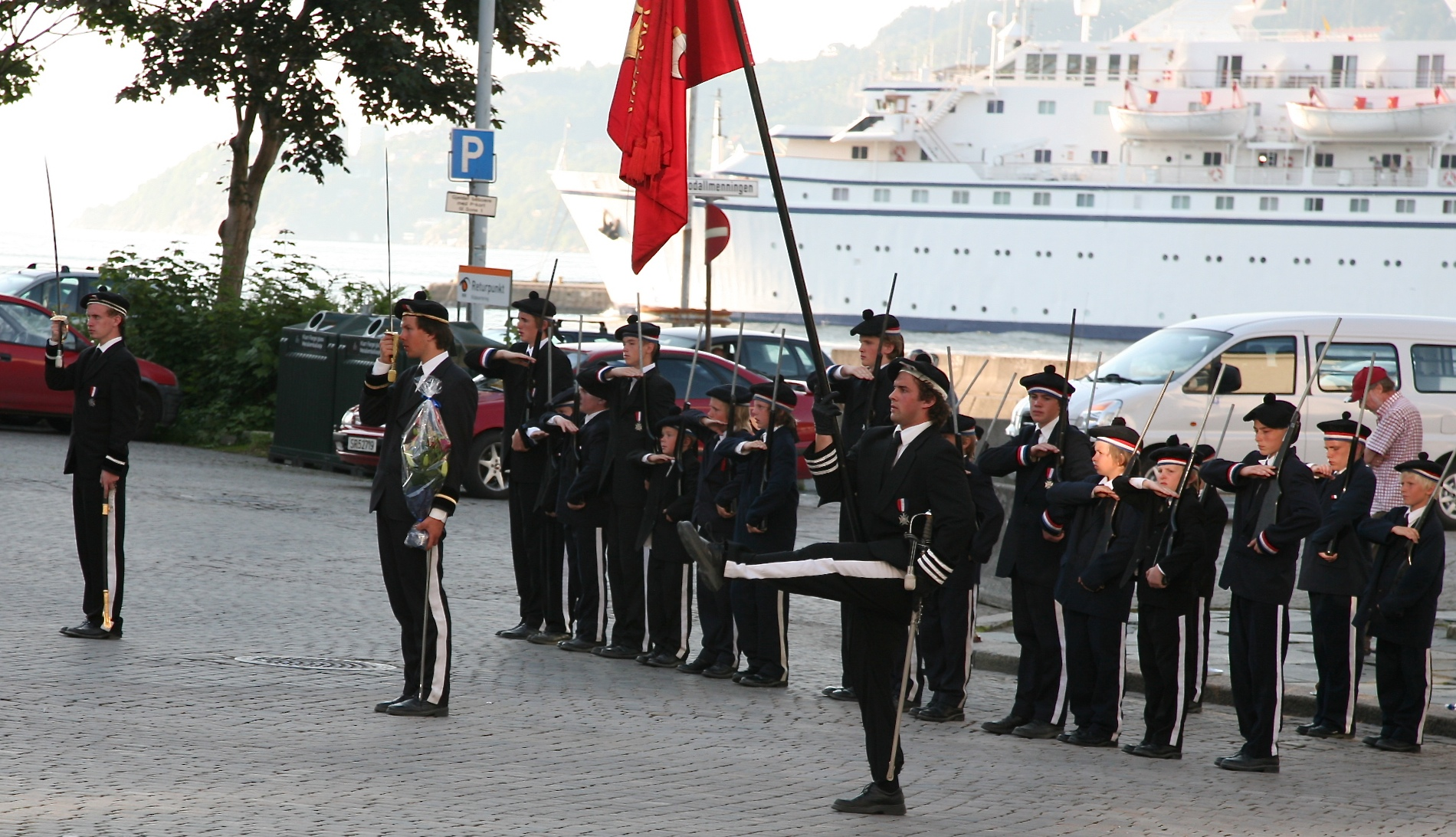 Nordnæs Bataillon